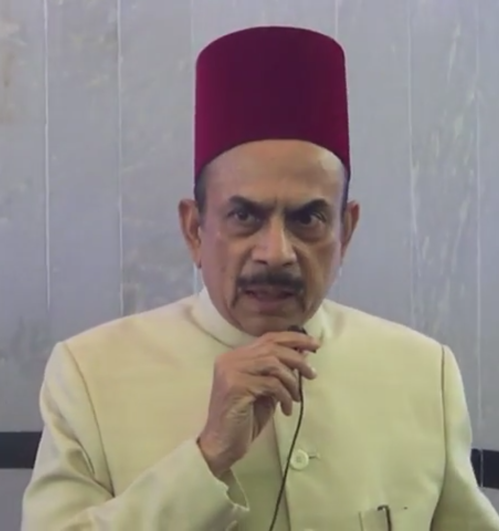 Indian politician Mohammad Ali, deputy chief minister of Telangana state